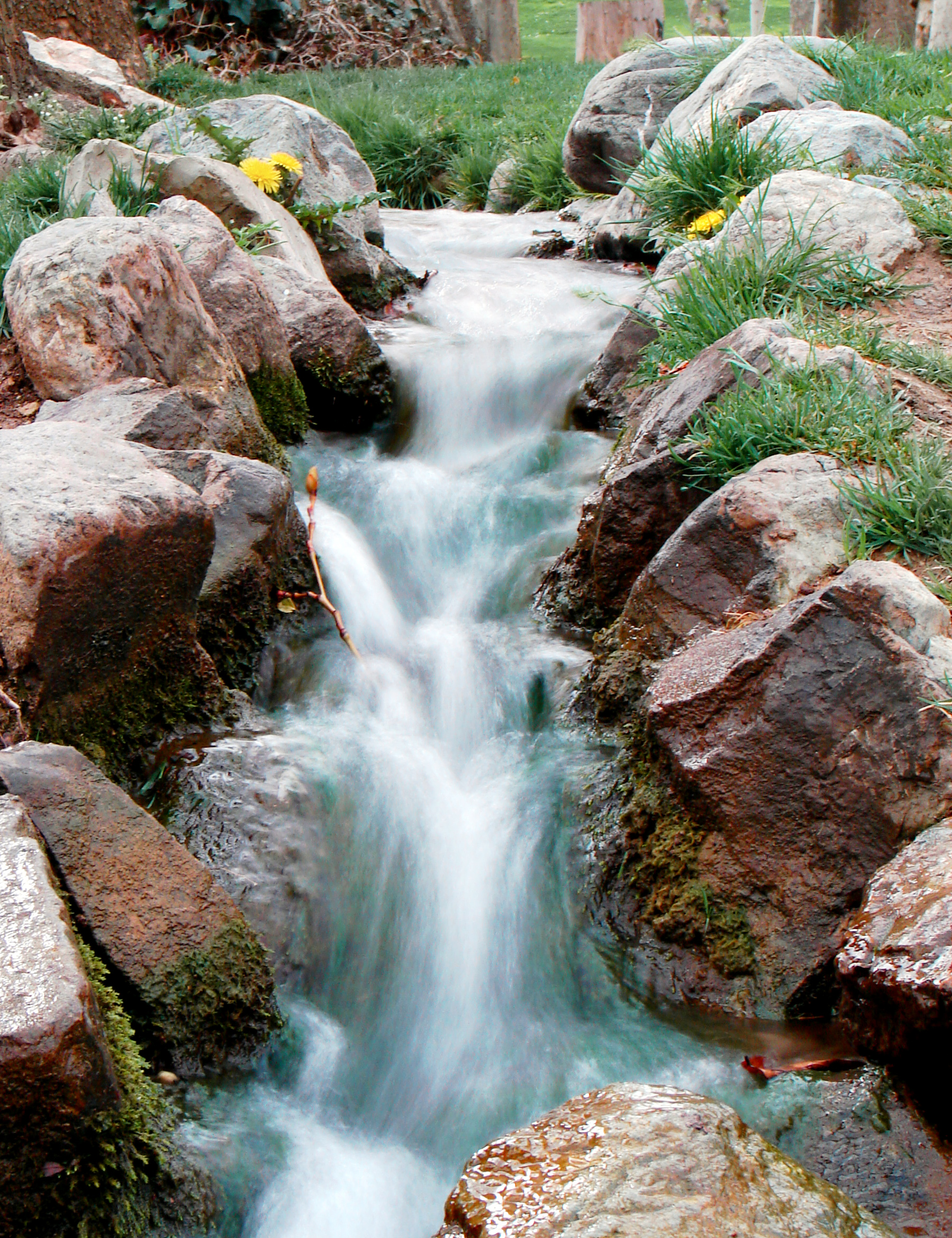 Nasrin found this small beautiful waterfall in our way from The White Castle to Museum of Omidvar Brothers. This photo is taken in our Sa'd Abad Small Gathering! Check this and this shot for more info about gathering, and the castles and museums inside Sa'd Abad Palace. No-Edit (no post process) except cropping and auto-adjusting levels with PS. Used an ND8 filter for reducing the light amount. Added to flickr Explore (interestingness) page of 17 April 2007.